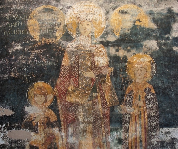 Fresco of Dušan`s fammily (Uroš,Jelena and Simeon Siniša) composition,Visoki Dečani,Serbia.